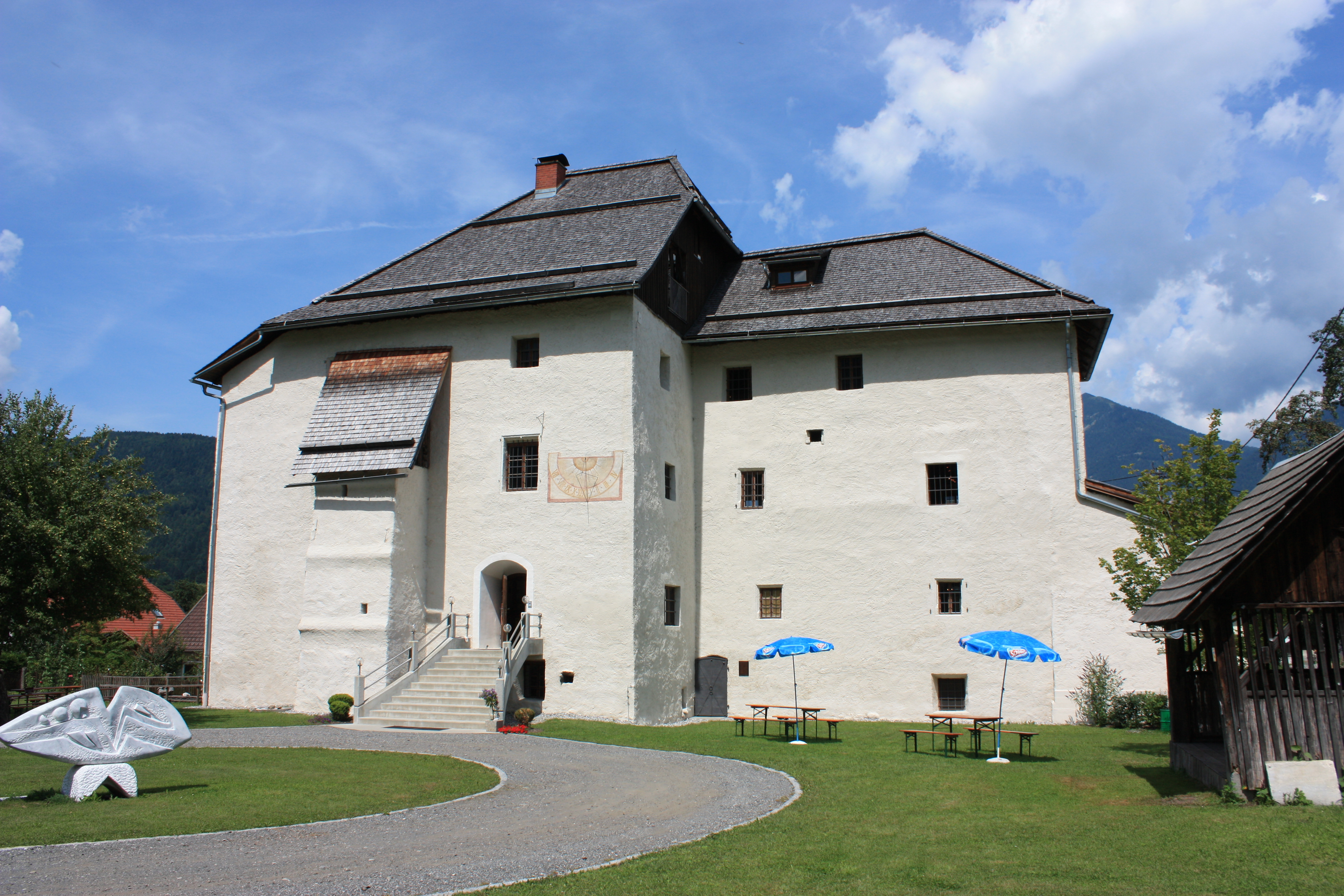 Möderndorf Castle Locality: Möderndorf Community:Hermagor